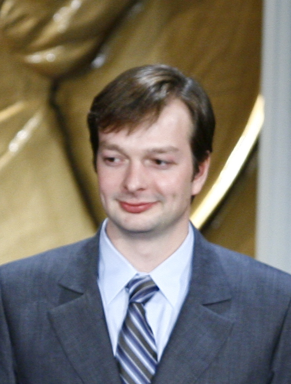 PHOTO CREDIT: ANDERS KRUSBERG / PEABODY AWARDS Curt Ellis, Aaron Wolf, Ian Cheney and Sam Cullman 69th Annual Peabody Awards Luncheon Waldorf=Astoria Hotel New York, NY USA May 17, 2010